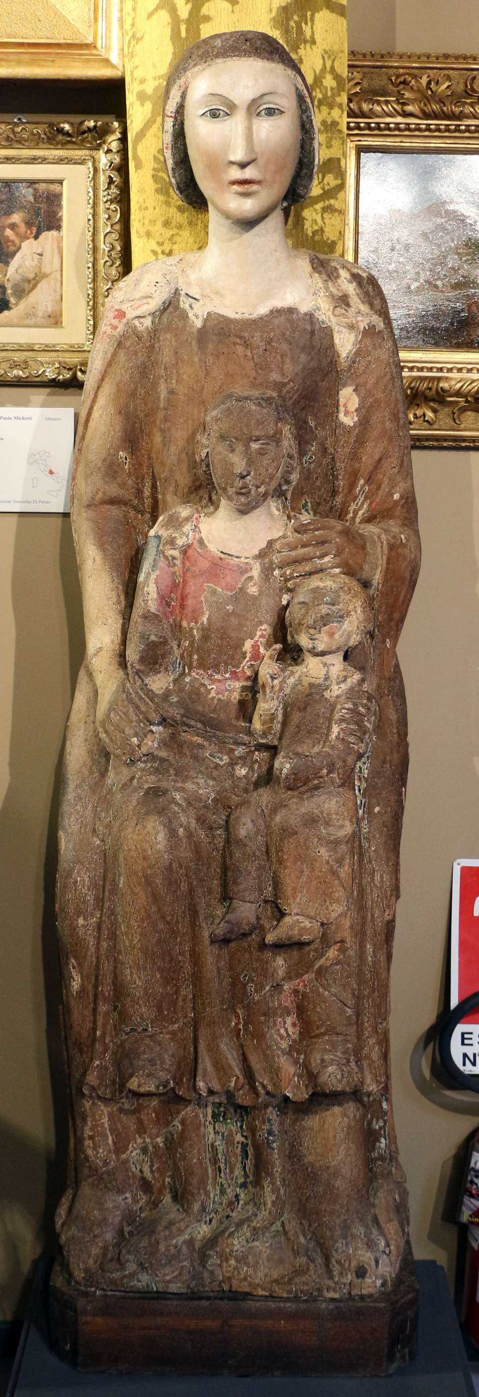 Il Tesoro d'Italia (exhibition at Expo 2015)